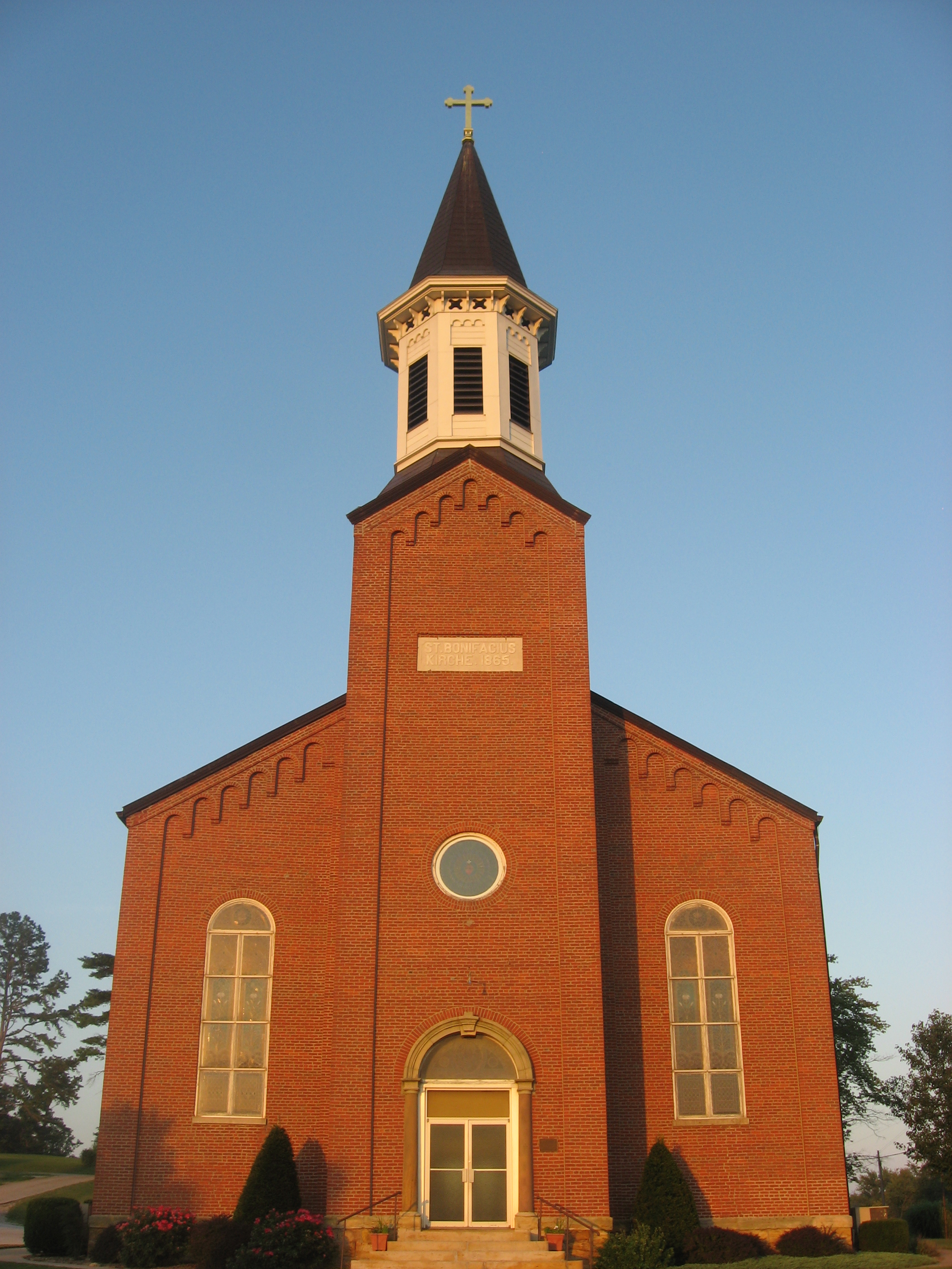 Front of St. Boniface's Catholic Church, located along State Road 545 in Fulda, Indiana, United States. Built in 1865, it is listed on the National Register of Historic Places.